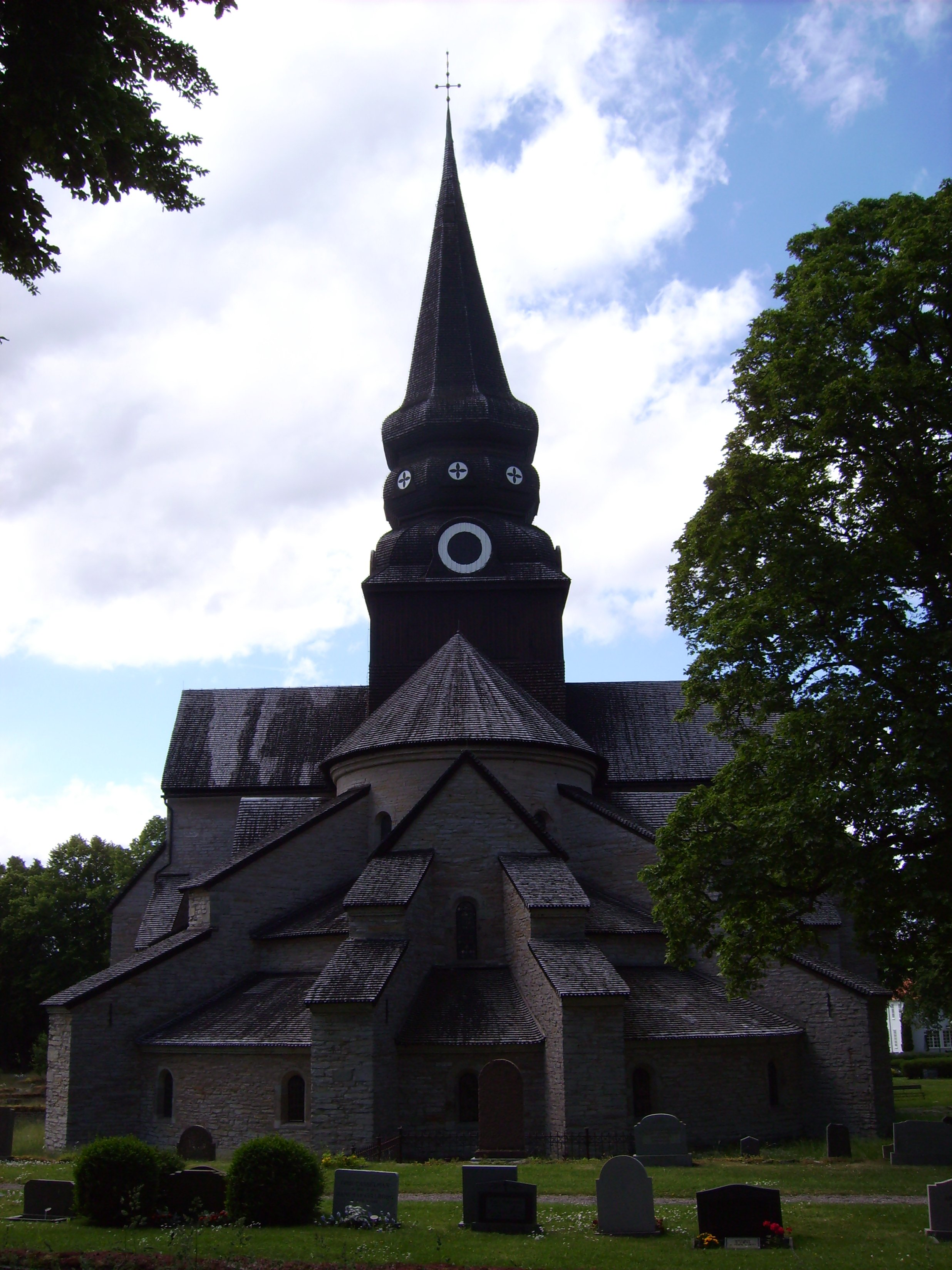 The monastic church Varnhem, convenient in the place Varnhem between the cities Skara and Skövde in the Swedish province Västergötland, is the grave church of the medieval king dynasty Eriks (Knut Eriksson and Erik Knutsson, Erik Eriksson) as well as the master father of the Bjälbo dynasty Birger Jarl and realm chancellor Magnus Gabriel de la Gardie. The monastery Varnhem was created 1150 of Cistercians as a daughter of monastery Alvastra, in the Swedish province Östergötland. The monastic church, originally in Roman style built, was heavily damaged in a fire 1234. It became in early gothic style after the model of the churches of Clairvaux (France) and Marienfeld (Germany) rebuilt. In the centre of the 17th century Swedish realm chancellor Magnus visited de la Gardie, whose county Läckö laid not far from Varnhem, the church. It recognized the value of the church as former royal grave church and let it recondition, since it should accommodate its own burial place (and those family). Between 1918 and 1923 the church was again reconditioned. At the same time the foundation walls of the monastery buildings were excavated. These excavations were taken up to the 1970 years again and are today accessible to the public. Further pieces of find can be visited in the monastery museum beside the church.